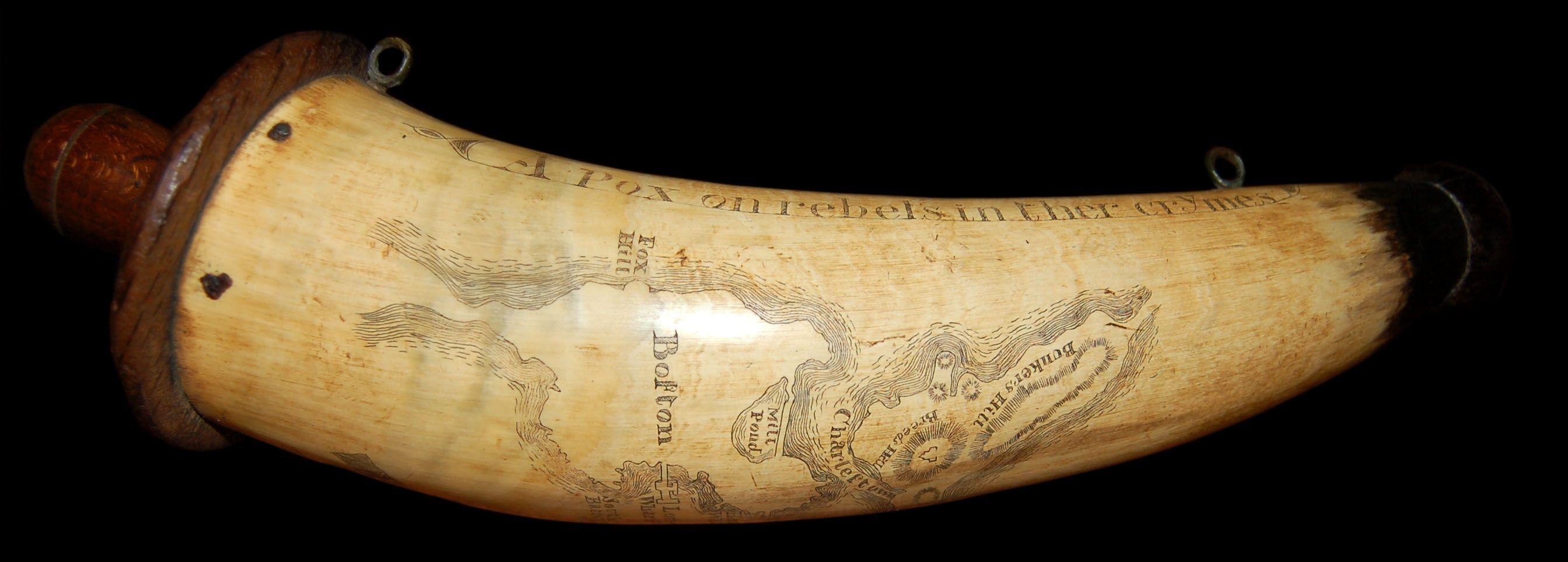 This is a rare and extraordinary powder horn dating to 1775, just prior to the Revolutionary War. Features a stunning scrimshaw map of Boston, Massachusetts, noting Bunker’s Hill (Bunker Hill), Breeds Hill, Morton’s Point, Charlestown, Mill Pond, Hancock’s Warf, Long Warf, The South Battery, and Fox Hill. A legend to the left of the map reads, “A Pox on Rebels in ther CrYmes.” Decorated with scrimshaw engravings of a British Man-o-war ship, an armorial shield for the 47th Foot, a British Crown, the date and title, and some floral decorations. Powder horns like this were used to store gun power for the flint-lock style rifles common during the Revolutionary War. From the date and the inscriptions scrimshawed into the horn we can surmise that this powder horn was made and used by a British soldier in the 47th Foot, during the American Revolutionary War, and more specifically shortly following the British victory at the Battle of Bunker Hill. The 47th Foot were one of the British units to partake in the Bunker Hill battle. Afterwards they were renamed the “North Lancashire Regiment” and today they are called the “Queen’s Royal Lancashire Regiment.” Shortly following the Battle of Bunker Hill, the 47th Foot was reassigned to Quebec, Canada.